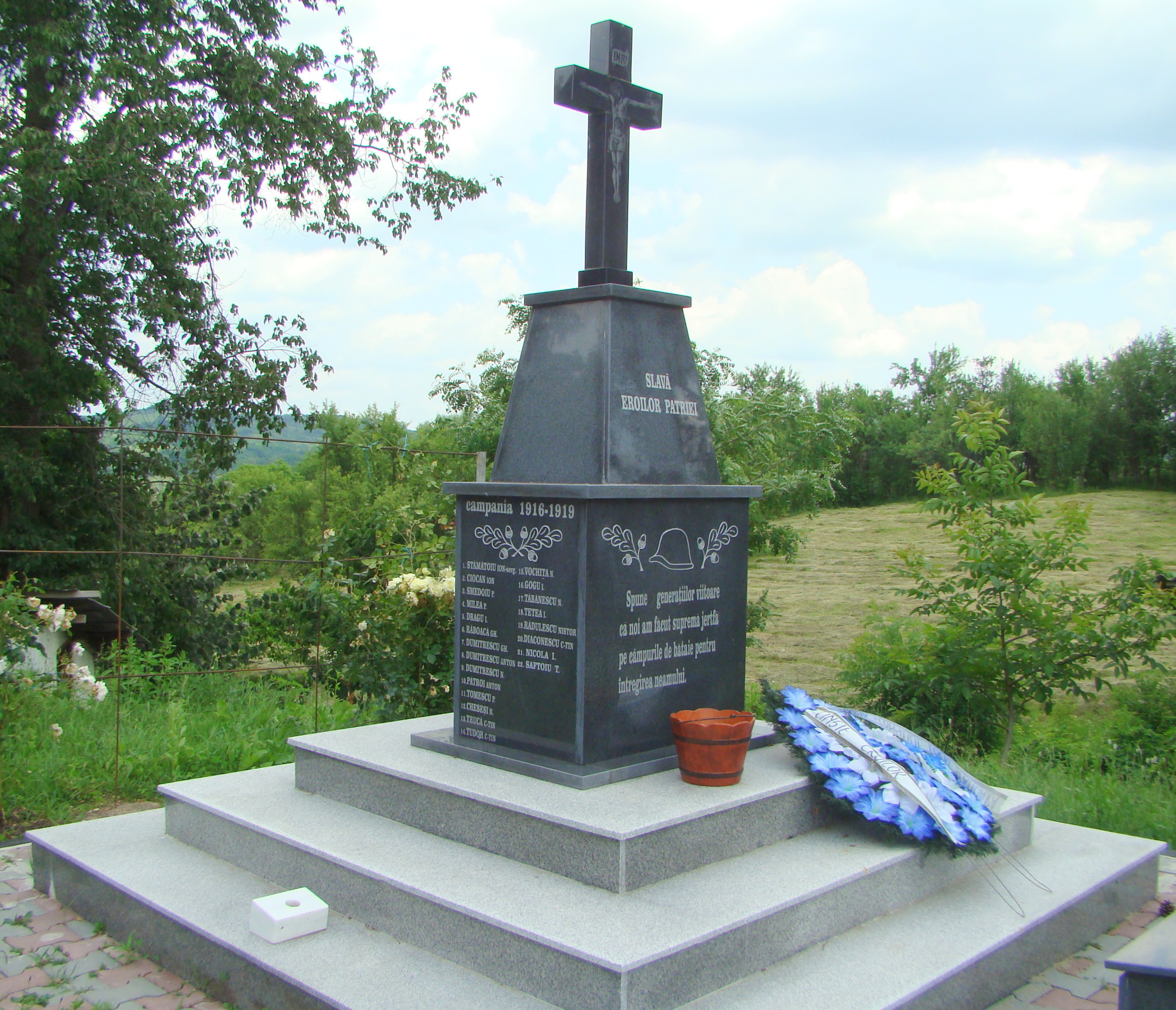 Wooden church in Milostea, Vâlcea county, Romania